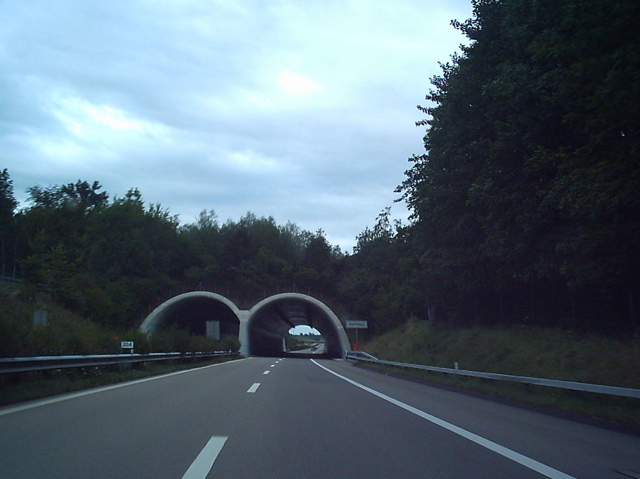 A7 Autobahn, Switzerland